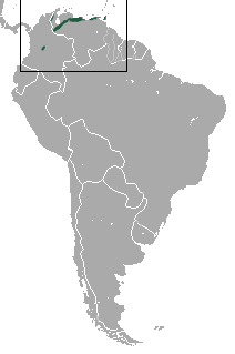 Gray-bellied Slender Mouse Opossum (Marmosops fuscatus) range